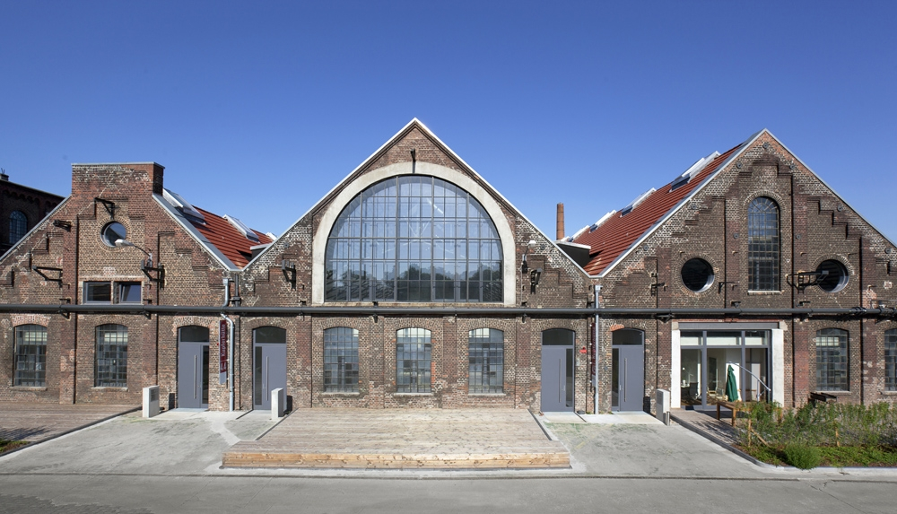 Die Kupferhütte ist ein Gebäude des Carlswerk. Sie beherbergt heute mehrere Mieter verschiedener Branchen.